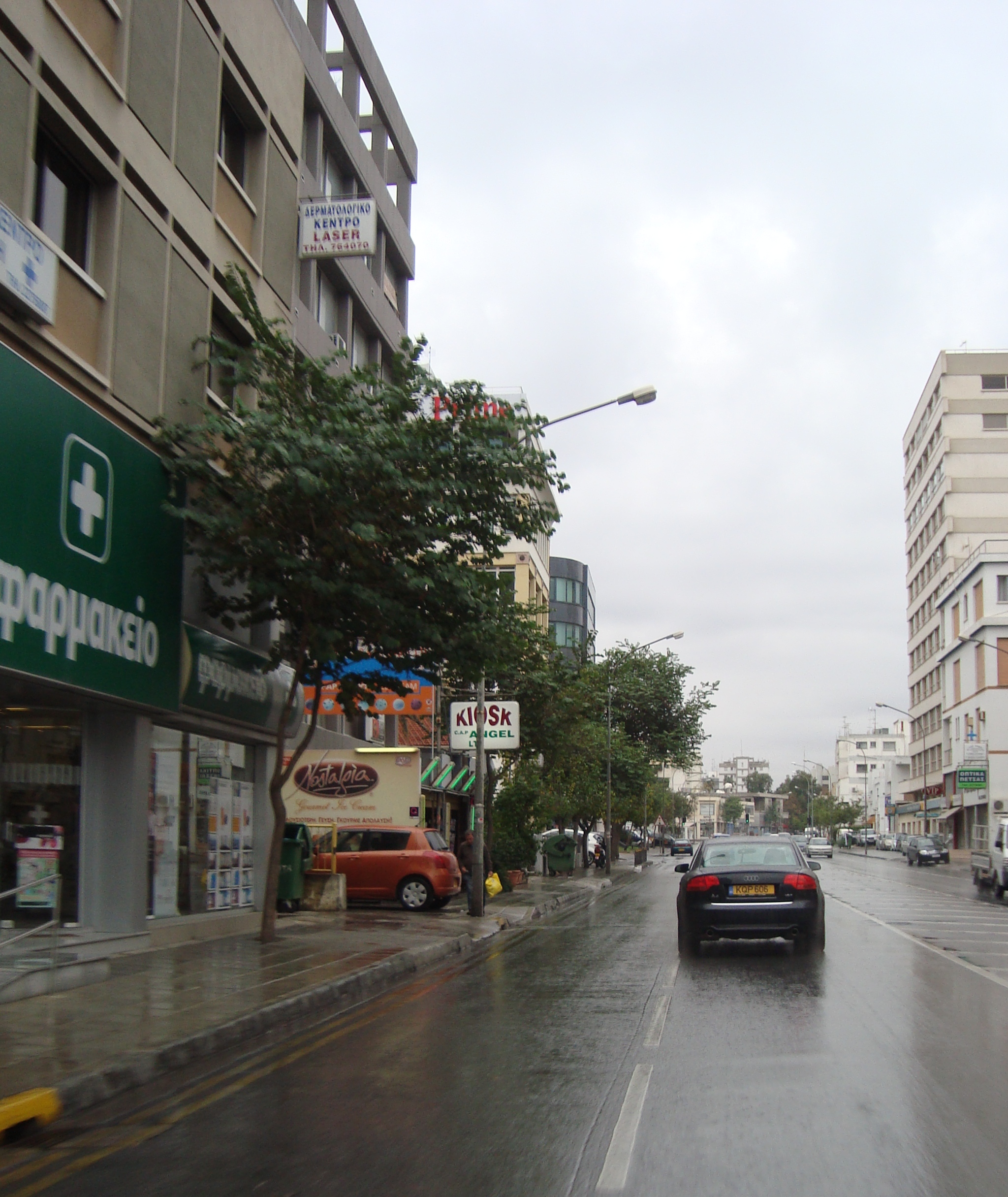 Raining in Pallouriotissa downtown Nicosia Republic of Cyprus